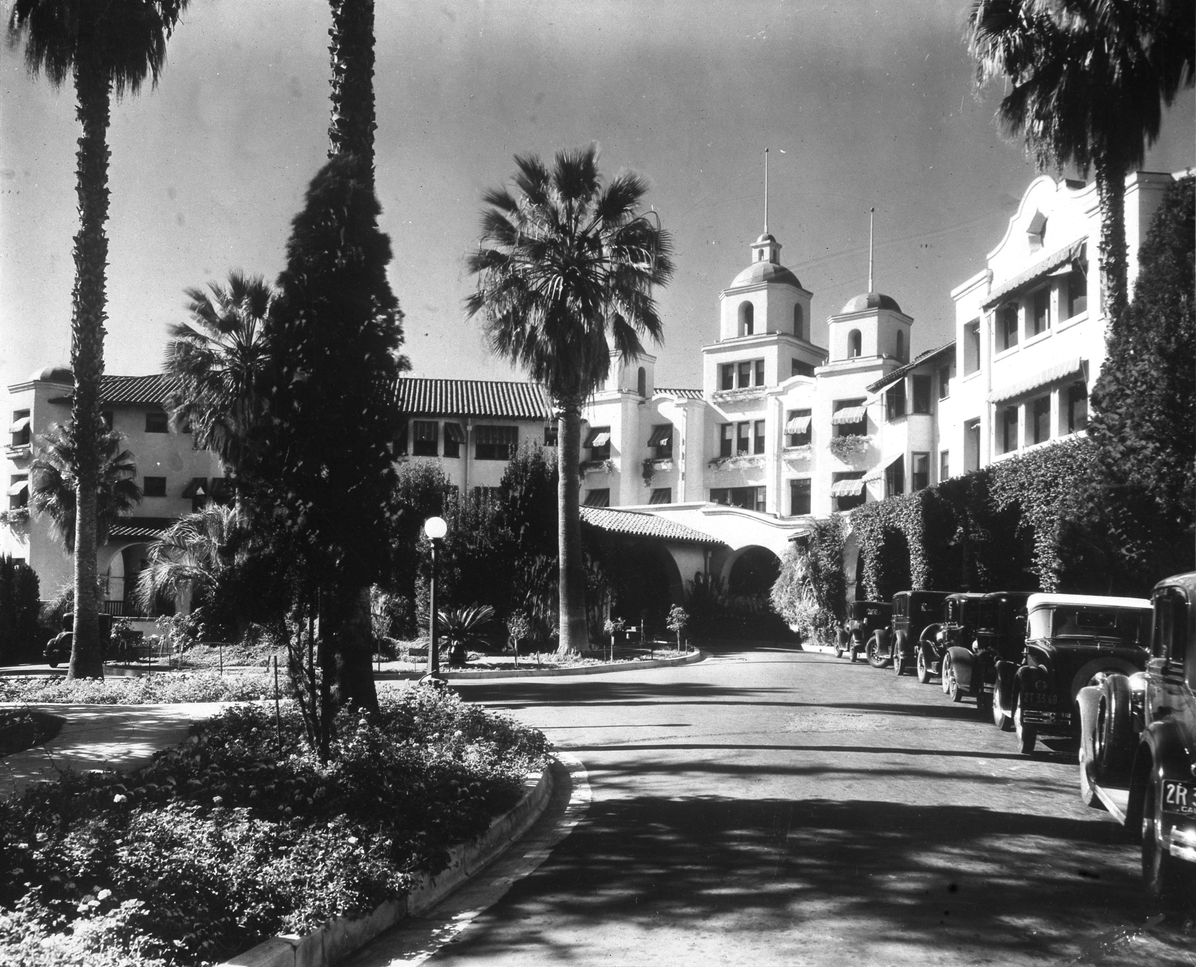 Title: Beverly Hills Hotel, front driveway and entrance (copy of photograph), circa 1925. Publication: Los Angeles Times Publication date: circa 1925 Source: Los Angeles Times photographic archive, Digital collectons — UCLA Library. Note about non-renewal of copyright: [1]